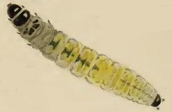 Stainton’s Natural History of the Tineina (1855–1873): Coleophora currucipennella larva